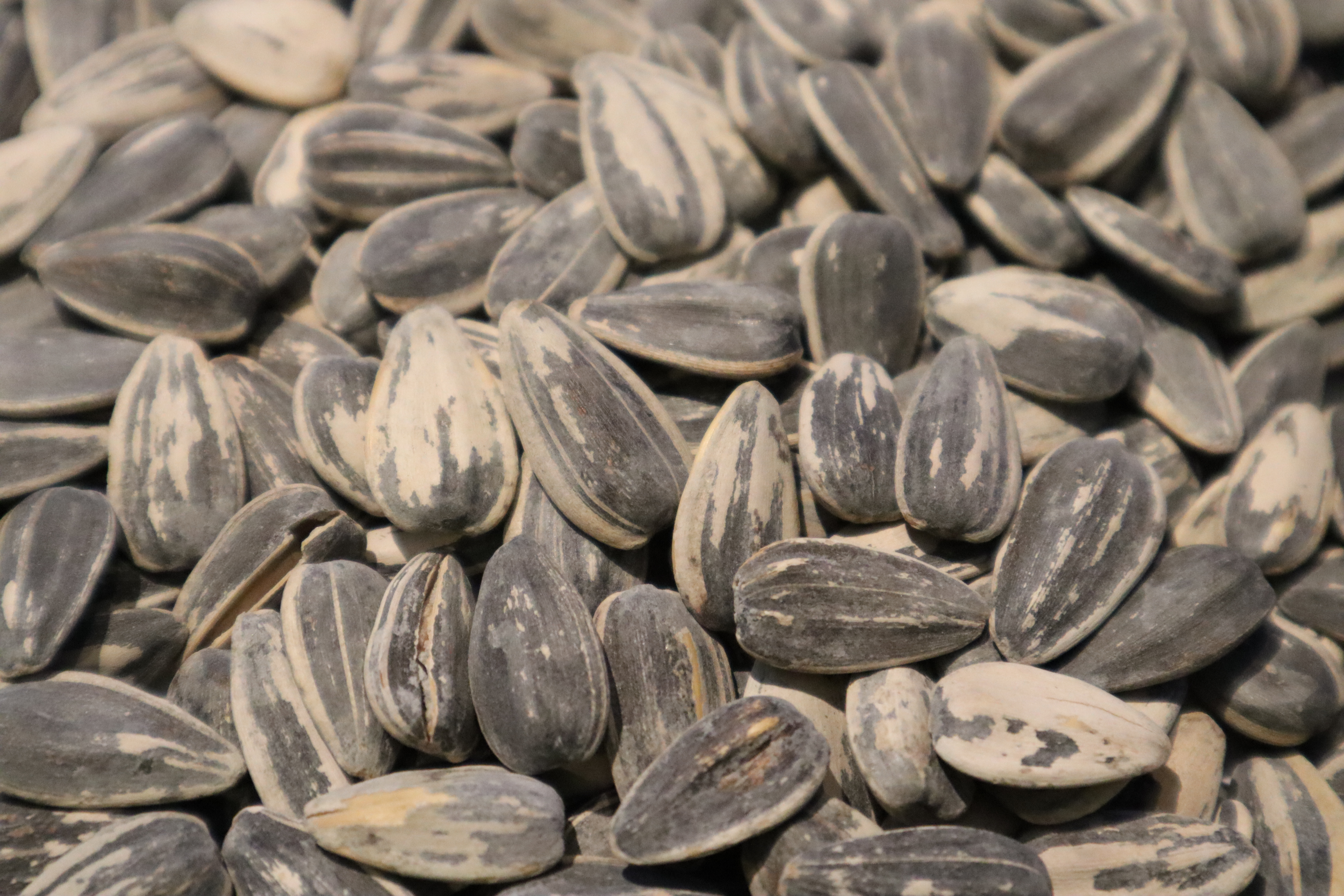 Multiple Whole Sunflower seeds